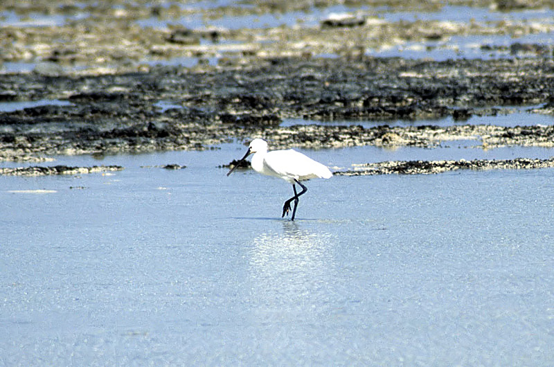 Egret in the mangroves in the Nabq Protected Area, Sinai, Egypt